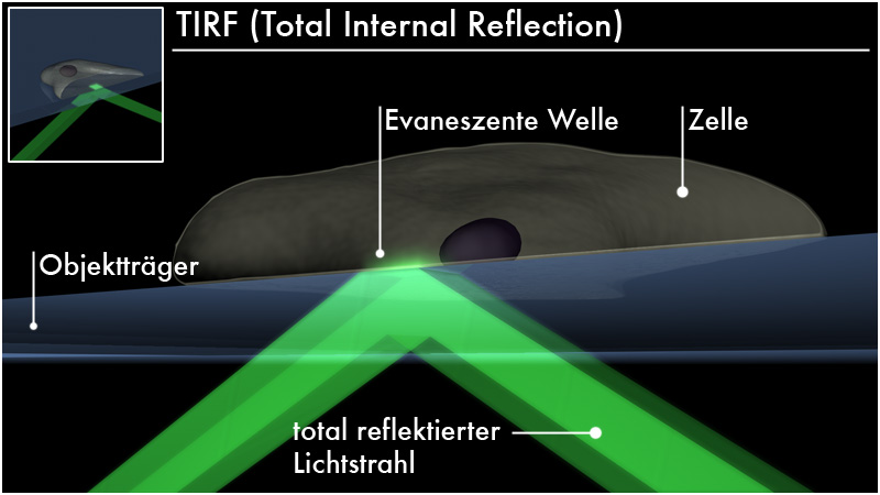 Evanescent wave in TIRF (total internal reflection) microscopy, general model. Proportions are not realistic for better comprehensibility. Captions are in German.